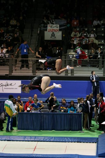 Photograph of girls performing synchronized trampoline at WAGC in Quebec November 2007. Trampqueen 21:52, 15 November 2007 (UTC)